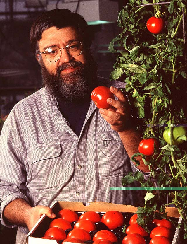 Image Number K5915-1 Plant physiologist Athanasios Theologis compares Florida-grown Endless Summer tomatoes to his greenhouse-grown fruit. All contain the bioengineered ACC synthase gene. Photo by Jack Dykinga.